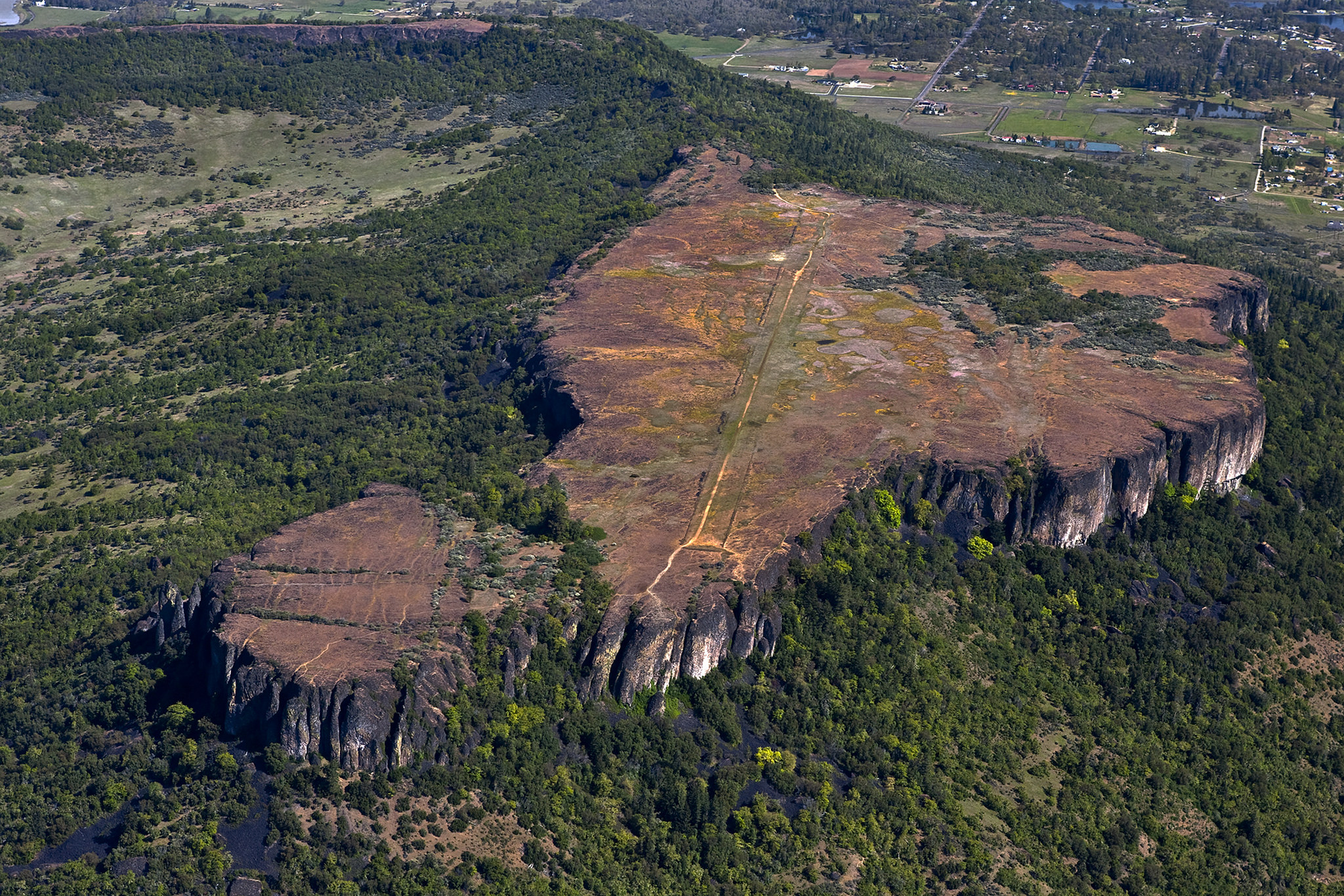 Table Rocks ACEC, Oregon Upper and Lower Table Rocks are two of the most prominent topographic features in the Rogue River Valley. These flat-topped buttes rise approximately 800 feet above the north bank of the Rogue River in southwestern Oregon. Upper and Lower refer to their positions relative to each other along the Rogue River; Lower Table Rock is located downstream, or lower on the river, from Upper Table Rock. The Table Rocks were designated in 1984 as an Area of Critical Environmental Concern (ACEC) to protect special plants and animal species, unique geologic and scenic values, and education opportunities. The remarkable diversity of the Table Rocks includes a spectacular spring wildflower display of over 75 species, including the dwarf wooly meadowfoam (Limnanthes floccosa ssp. pumila), which grows nowhere else on Earth but on the top of the Table Rocks. Vernal pool fairy shrimp (Branchinecta lynchi), federally listed as threatened, inhabit the seasonally formed vernal pools found on the tops of both rocks. The 4,864-acre Table Rocks Management Area is cooperatively owned and administered by the Medford District Bureau of Land Management (2,105 acres) and The Nature Conservancy (2,759 acres). Memorandums of Understanding signed in 2011 and 2012 with the Confederated Tribes of the Grand Ronde and the Cow Creek Band of Umpqua Tribe of Indians allow for coordinating resources to protect the Table Rocks for present and future generations. A cooperative management plan for the area was completed in 2013. If you've never been, start planning your trip right here